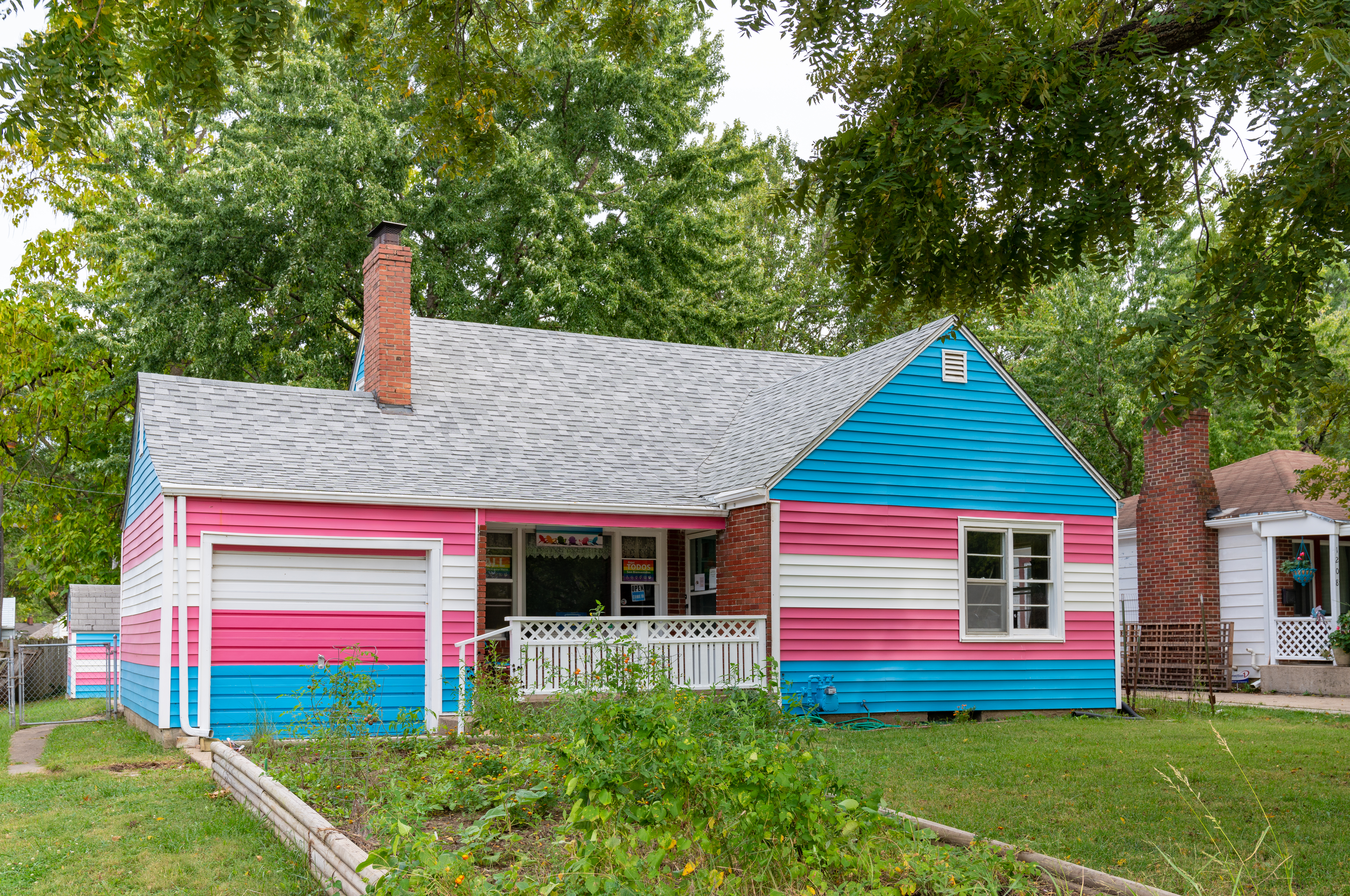 The Transgender House next to the rainbow-colored Equality House, across the street from the Westboro Baptist Church in Topeka, Kansas. -- (c) 2018 Tony Webster +1 (202) 930-9200